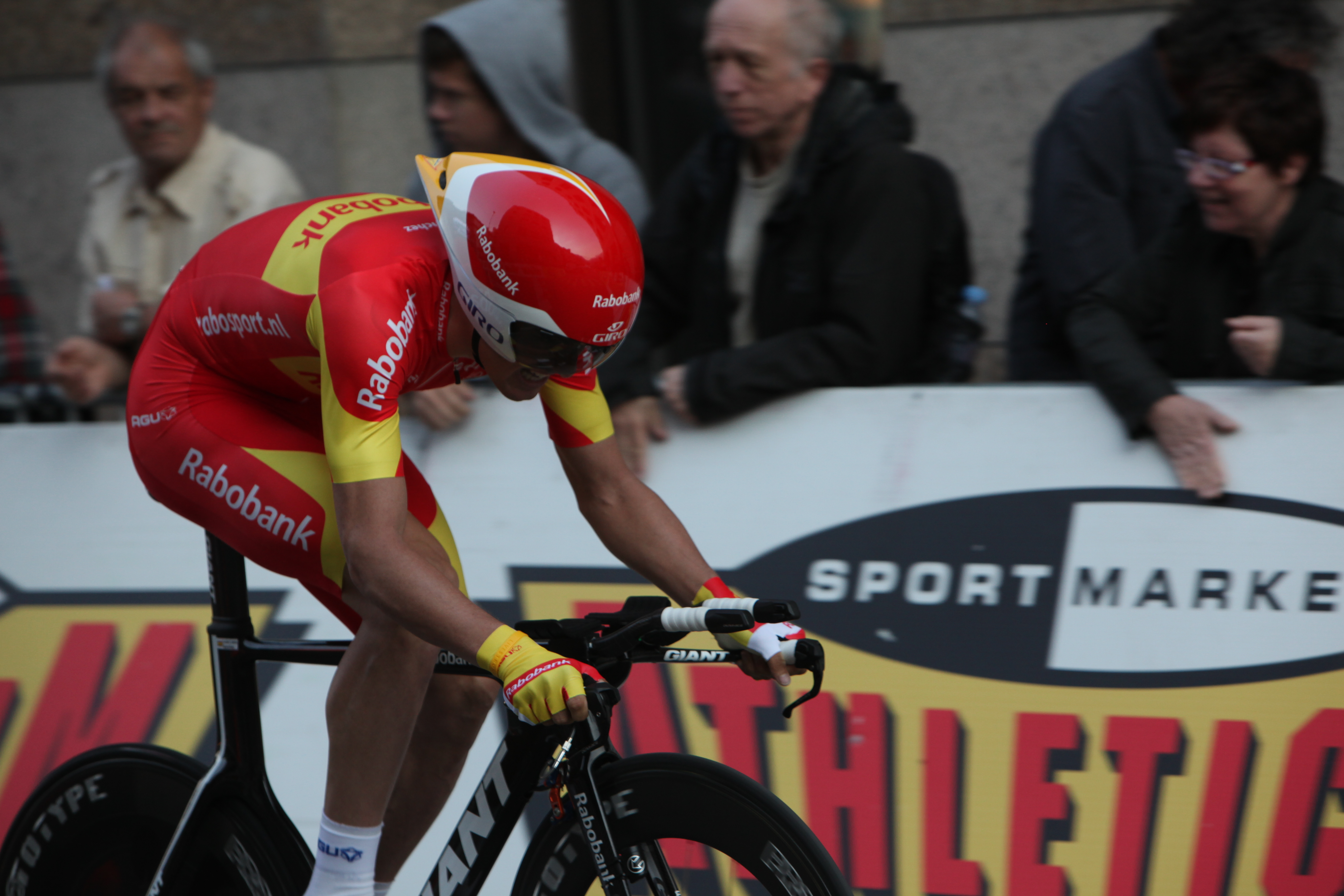 Luis Leon Sanchez at the prologue of the Tour de Romandie 2011